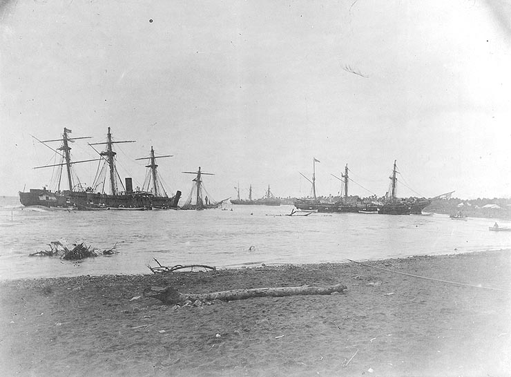 Wrecked ships in Apia Harbor, Upolu, Samoa, soon after the storm. The view looks about northward, with USS Trenton and the sunken USS Vandalia at left, the German corvette Olga beached in the center distance and USS Nipsic beached in the right center. Original caption: "Photo # NH 2150 Wrecked ships at Apia, Samoa, after March 1889 hurricane. Looking northwards"